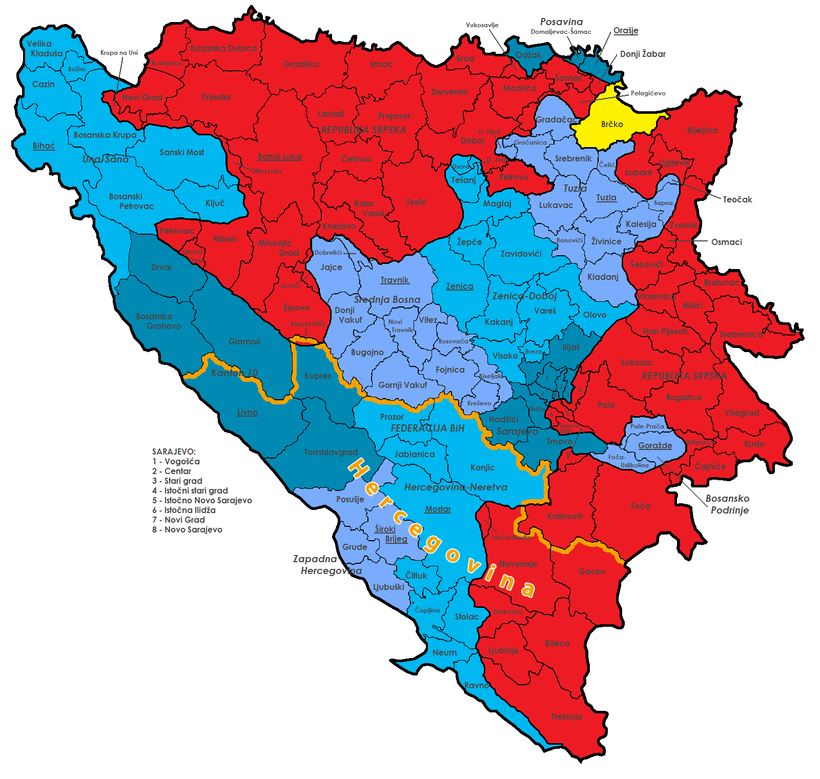 Map of the political division of Bosnia and Herzegovina; shows Federation Bih (blue) with cantons (different colours), Republika Srpska (red), Brčko district (yellow) and all municipalities with their official names. The Economical Region of Herzegovina is highlighted in orange.